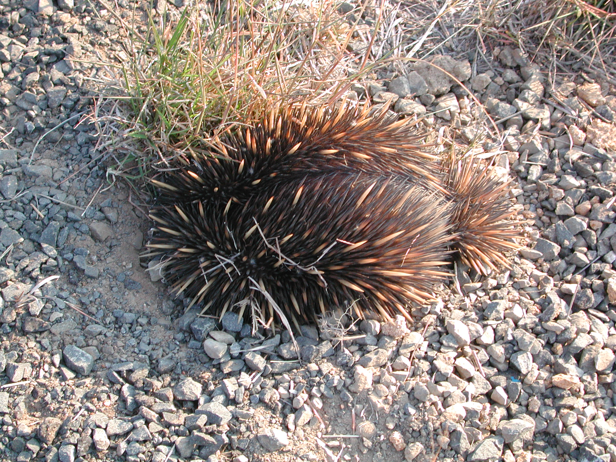 Short-beaked Echidna, Kurzschnabeligel, Tachyglossus aculeatus, Carnarvon Highway, Queensland, Australia